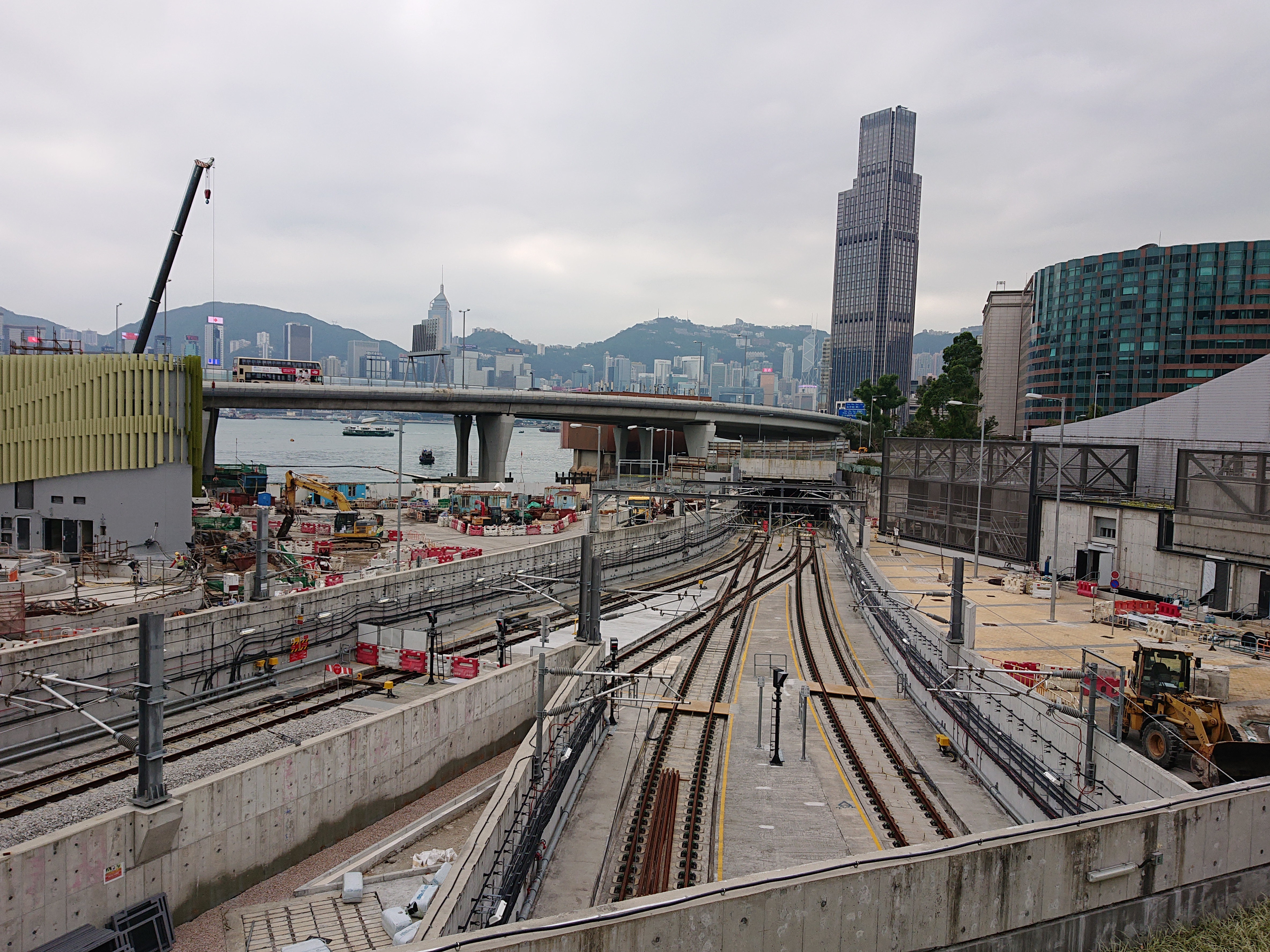 Sha Tin to Central Link Cross Harbour Tunnel Hung Hom Side in 2018